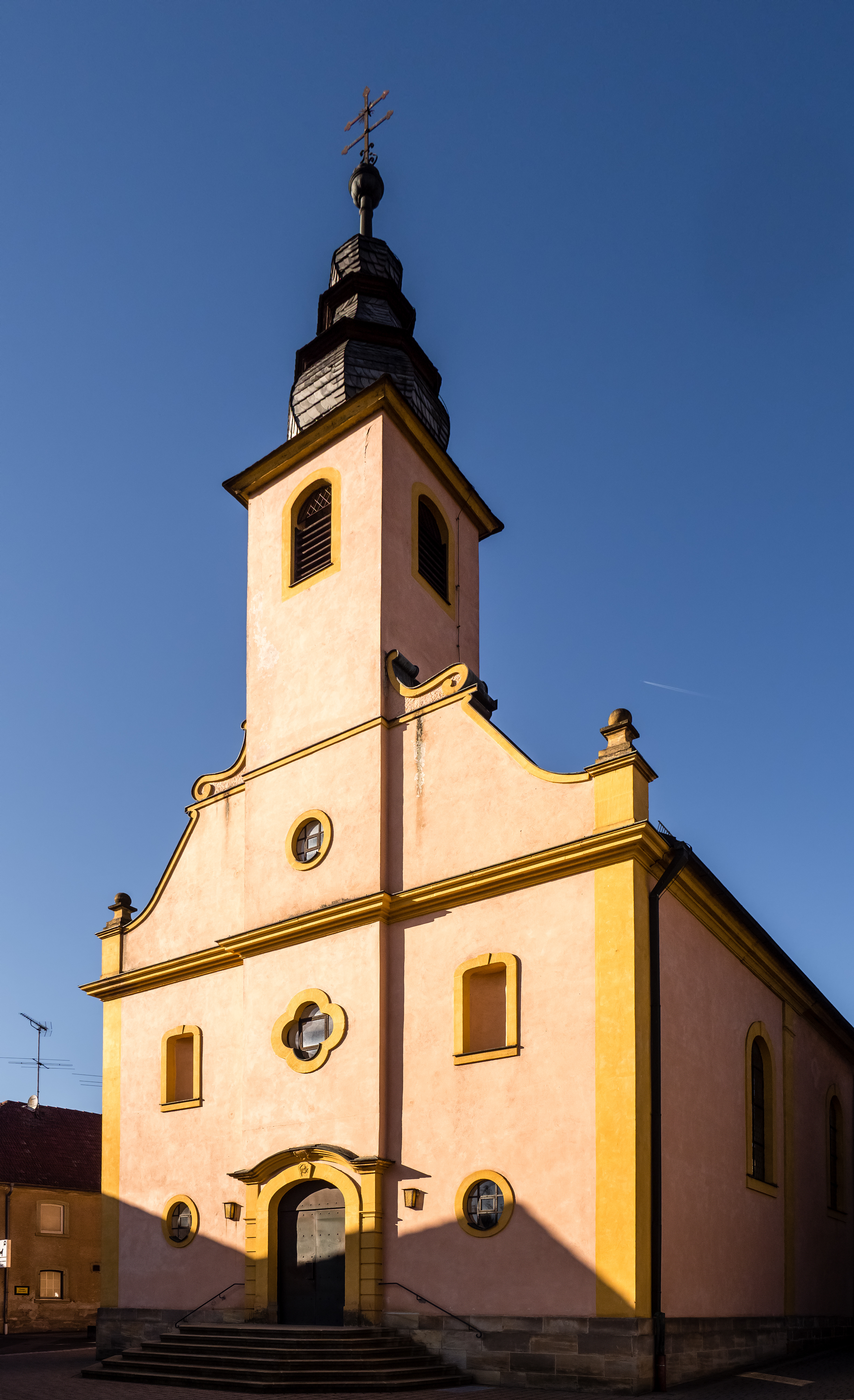 Catholic parish church of St. Laurentius in Lauter